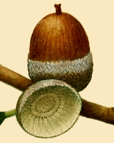 Acorn detail from Quercus prinoides - dwarf chinkapin oak or scrub chestnut oak.Original caption: Quercus prinus chincapin - Small Chestnut Oak (Petit Chêne châtaignier)